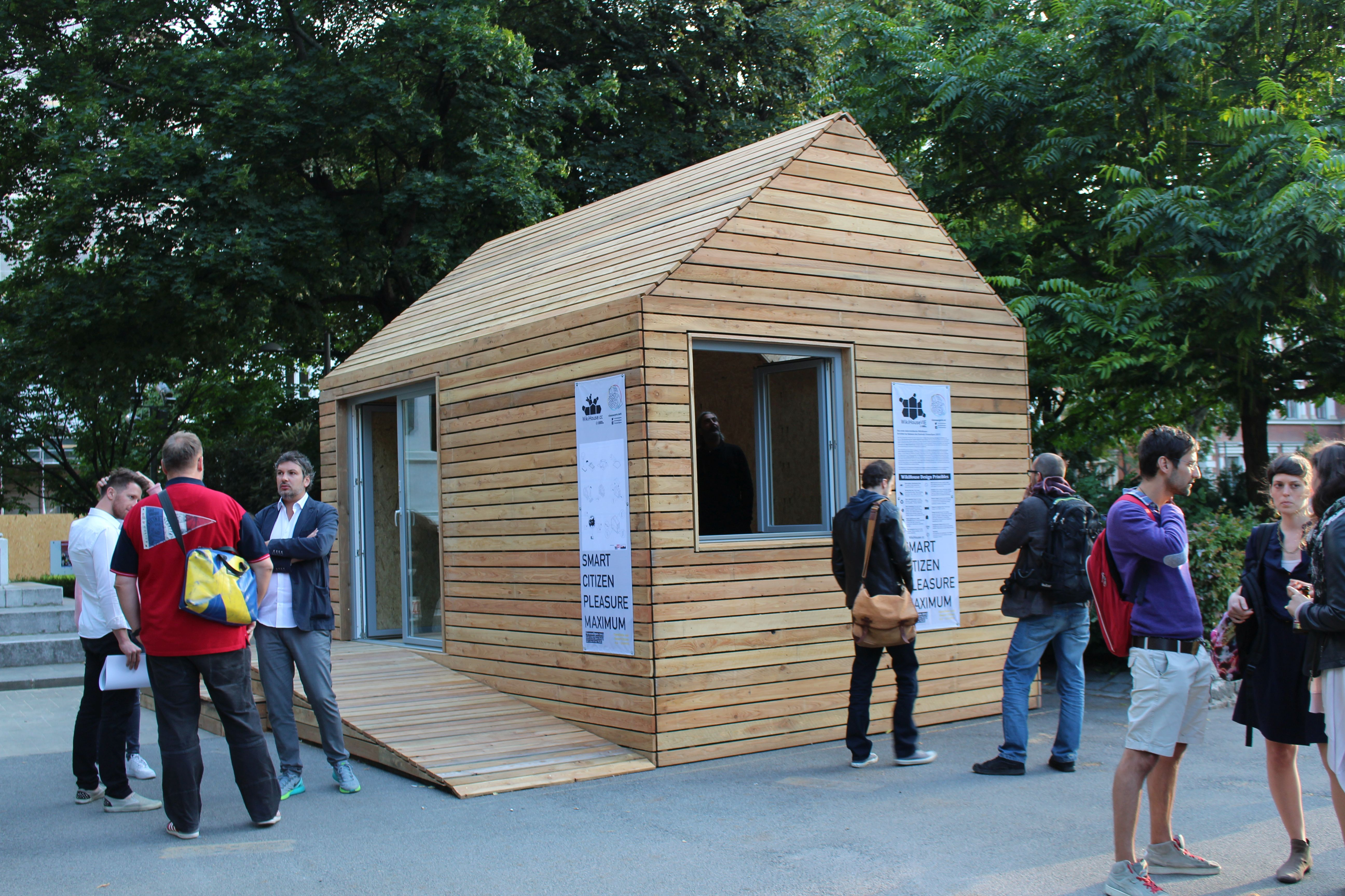 WikiHouse @ ViennaOpen 2015